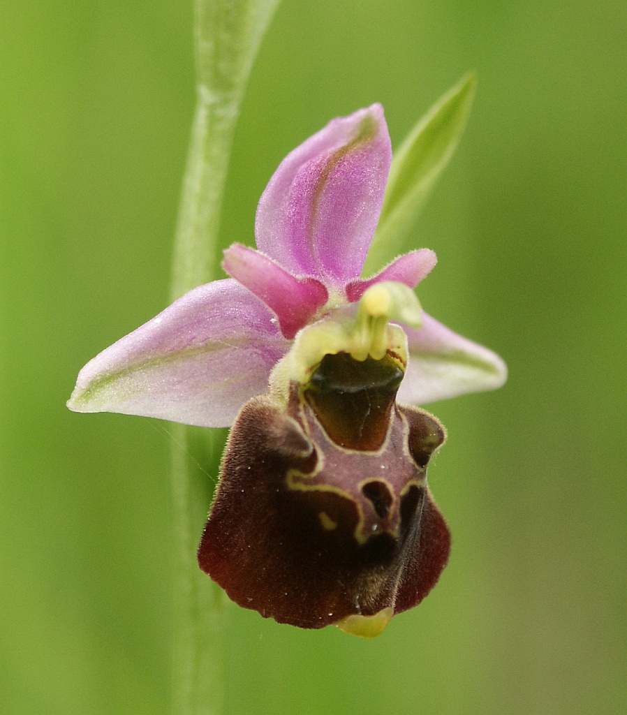 Ophrys holoserica